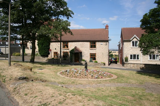 Micklebring Cottages and a floral display in Micklebring